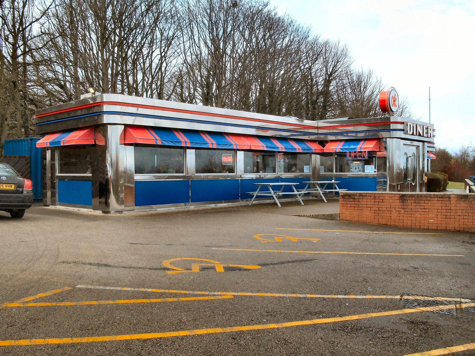 OK Diner Just off the A55 (westbound) between Ewloe Green and Northop Hall